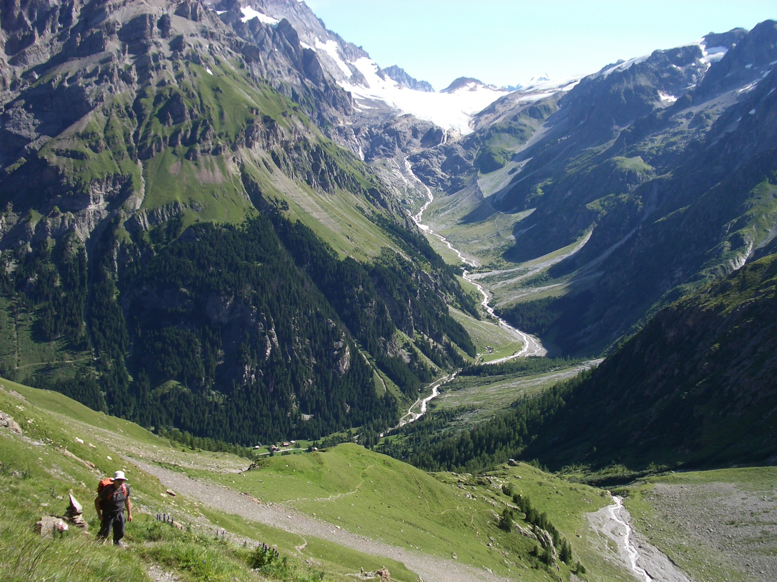 Gasterntal BE, Switzerland